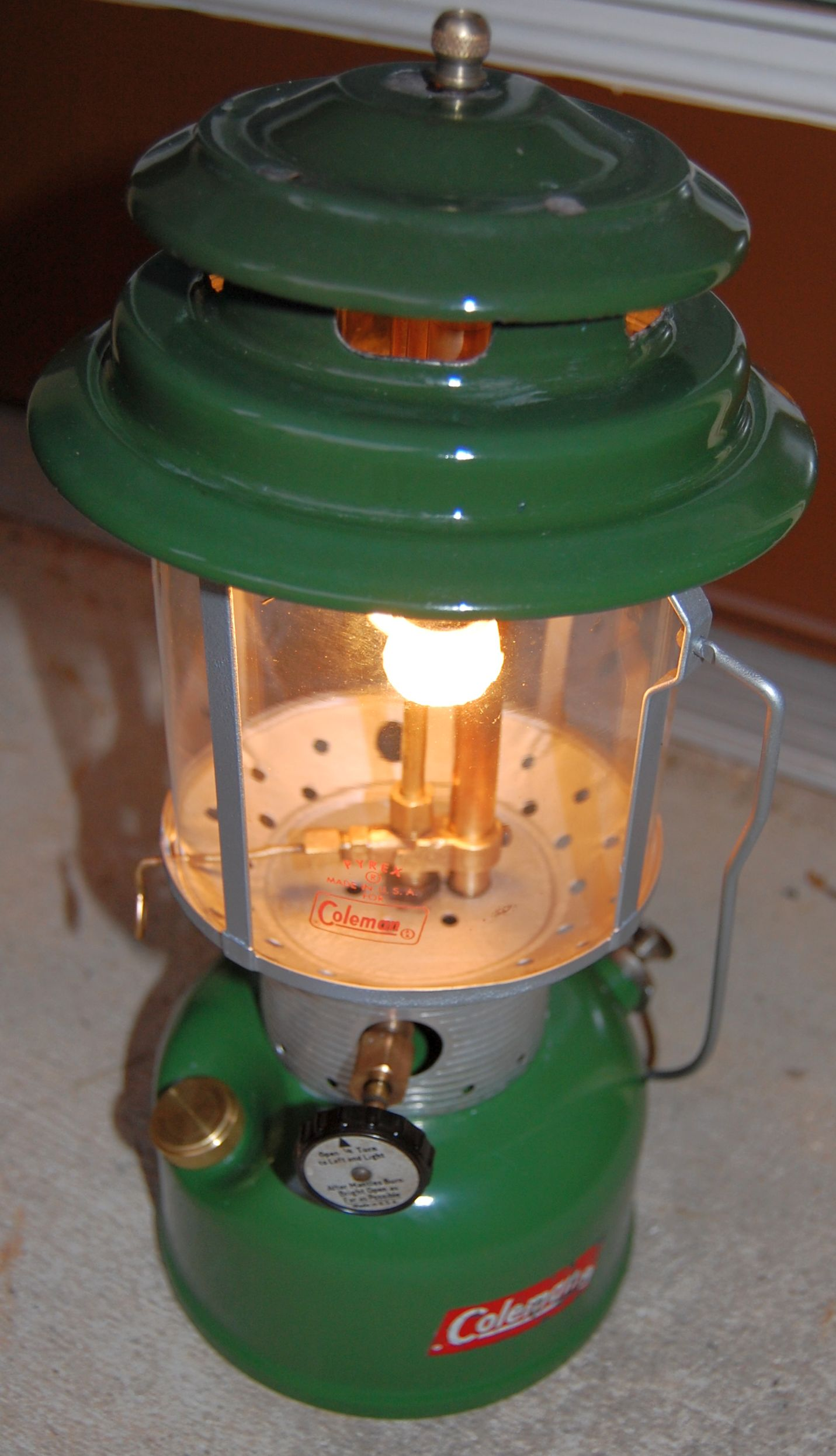 A lit (burning) gas pressure lantern - Coleman model 220F